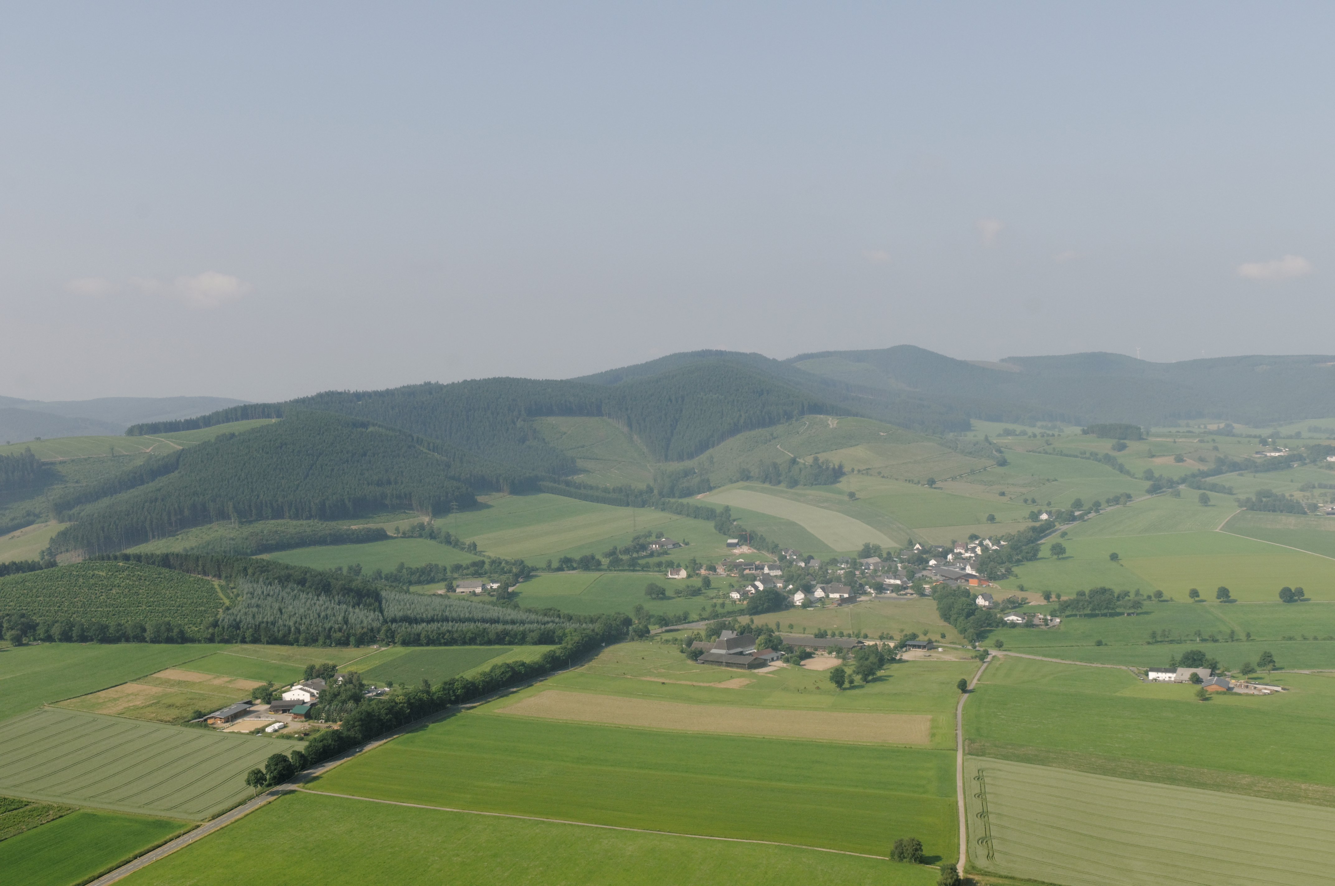 Fotoflug Sauerland-Ost; Felbecke und Umgebung, Stadt Schmallenberg The making of this document was supported by the Community-Budget of Wikimedia Germany.